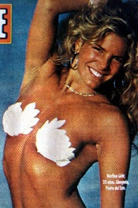 Merlina Licht-conductora argentina